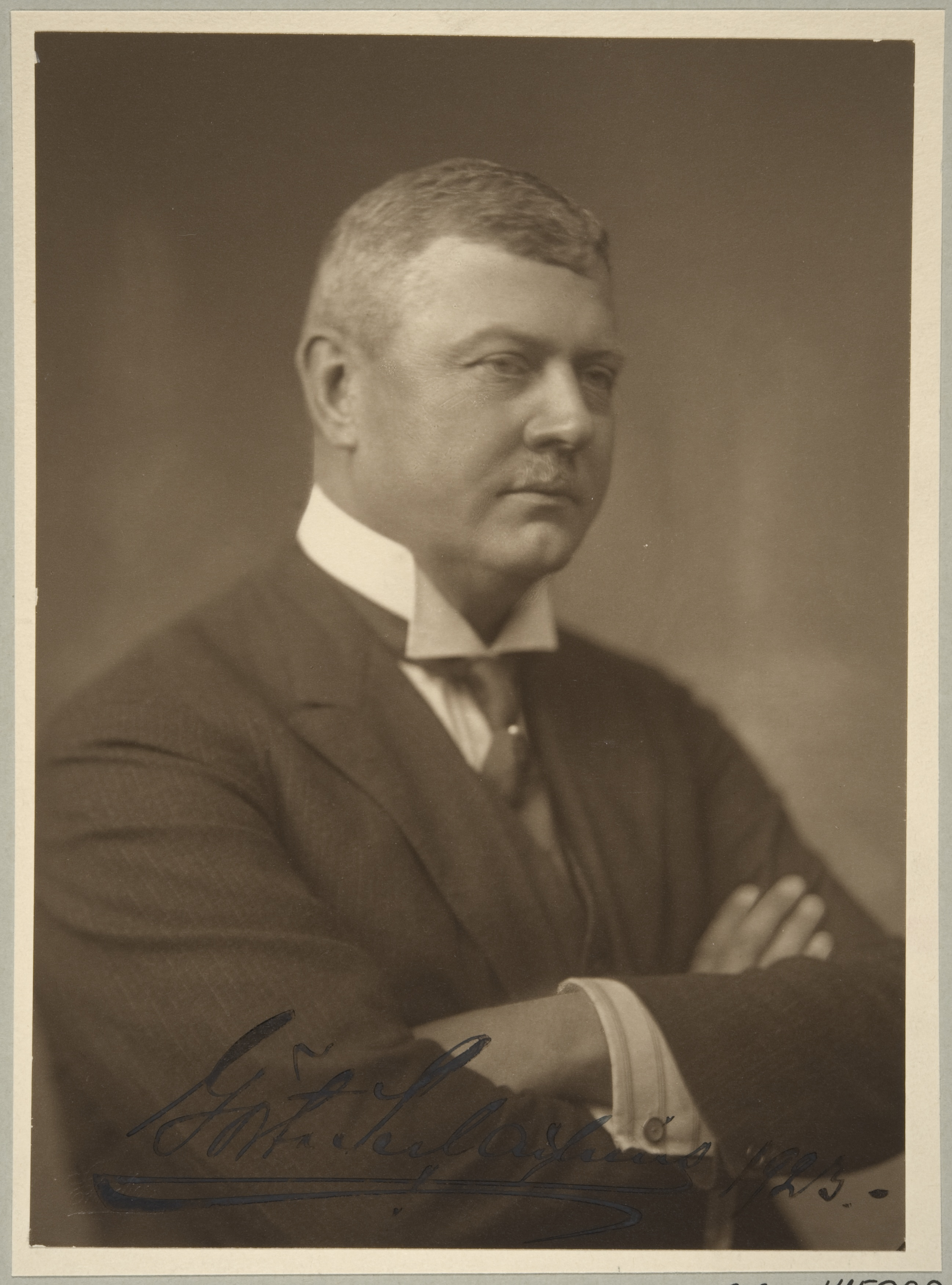 Photograph of the Finnish executive Gösta Serlachius (1876–1942).